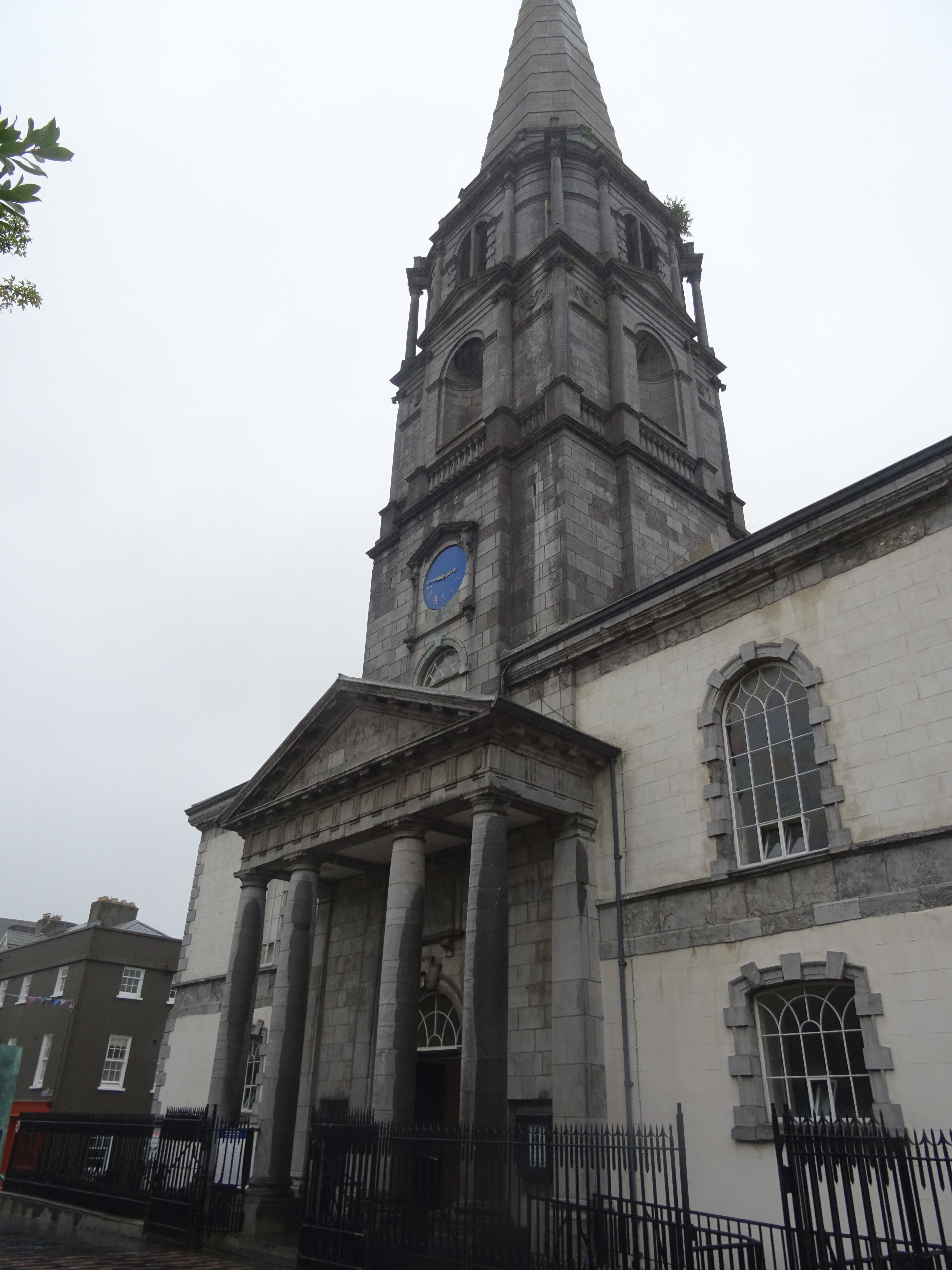 Christ Church Cathedral in Waterford, Ireland